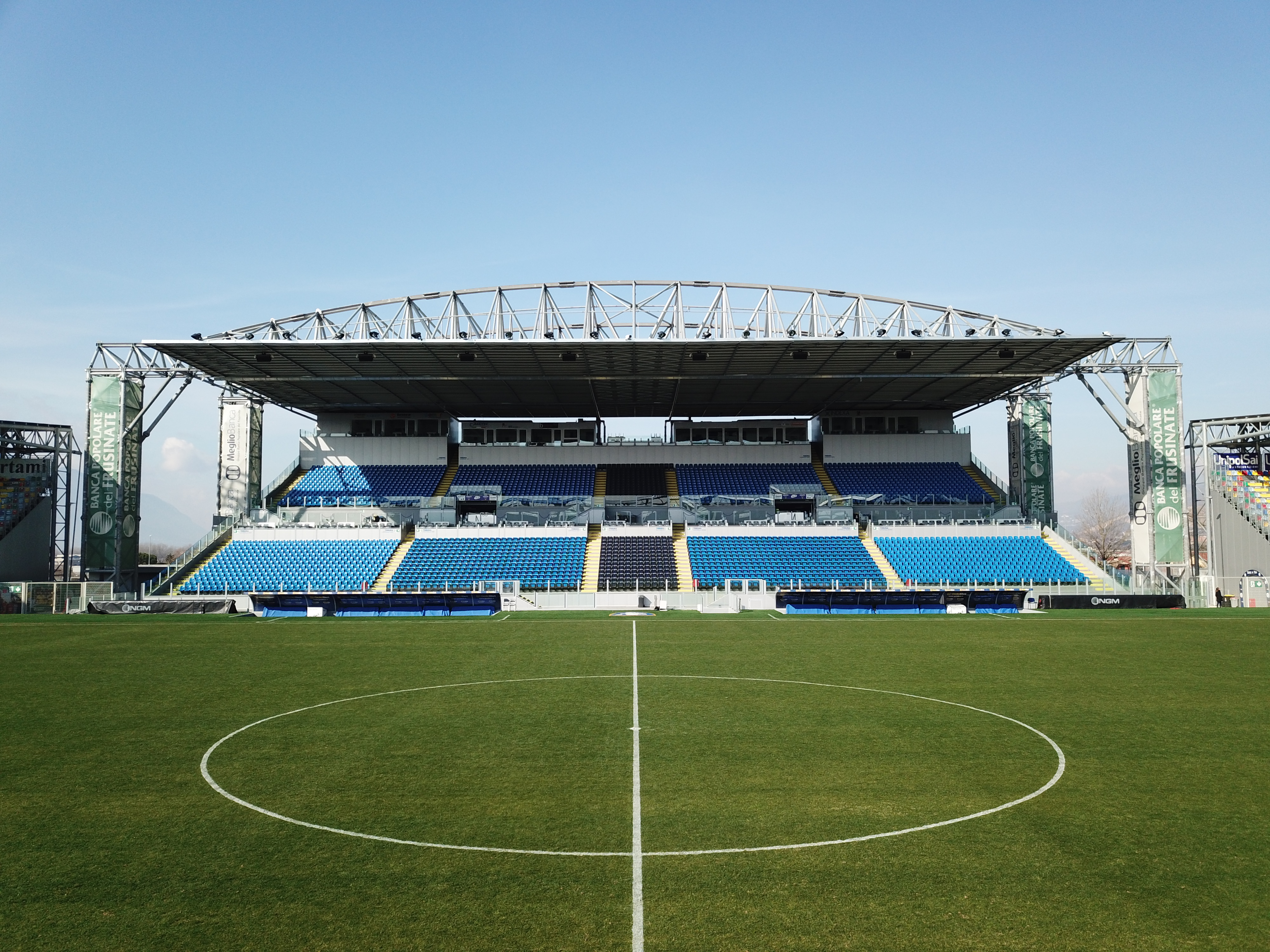 Benito Stirpe Stadium - Main Stand